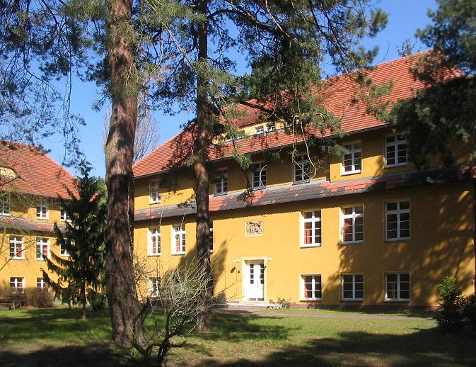 „Landesinstitut für Schule und Medien Berlin-Brandenburg“ (german for: country institute for school and media Berlin-Brandenburg) in Struveshof, former „Landwirtschaftliche Erziehungsanstalt“ (german for: agrarian reformatory), built in 1914ff, since 1961 part of Ludwigsfelde. Nearly the whole settlement is listed. Ludwigsfelde is a town in the district Teltow-Fläming, state Brandenburg, Germany.)